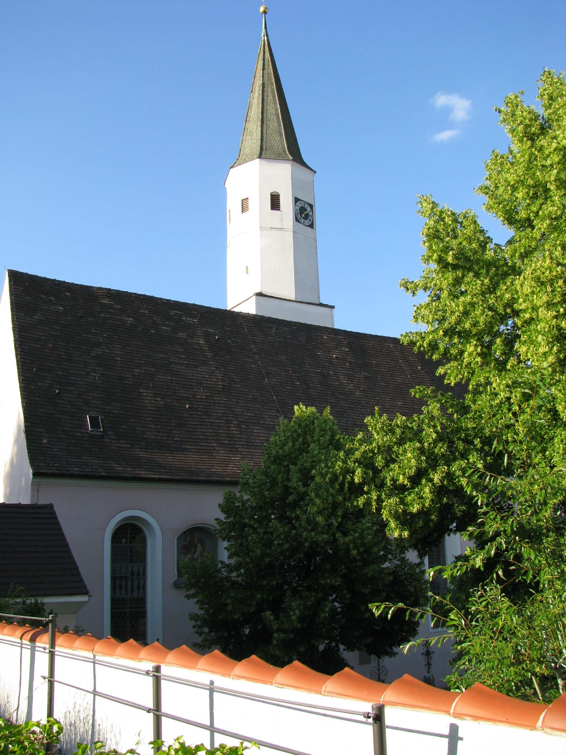 Church St. Laurentius of Thalfingen